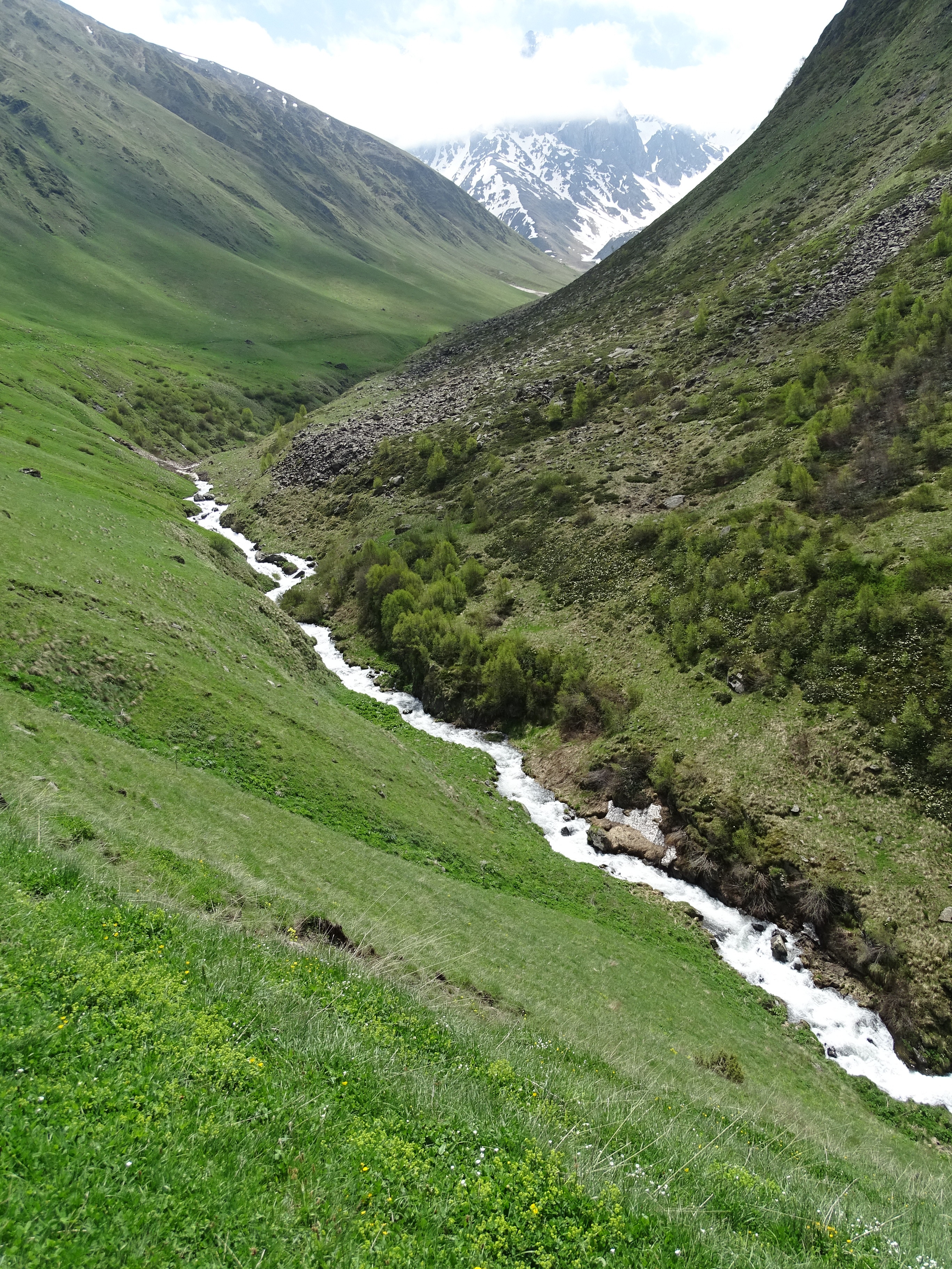 Scenery en route from Juta to Mount Chaukhi - Sno Valley - Greater Caucasus - Georgia - 09